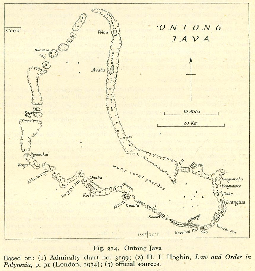 Map of Ontong Java Atoll in the Pacific Ocean